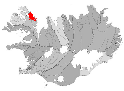 Árneshreppur, Icelandic municipality Own work based on Image:Municipalities_of_Iceland.png using The Gimp